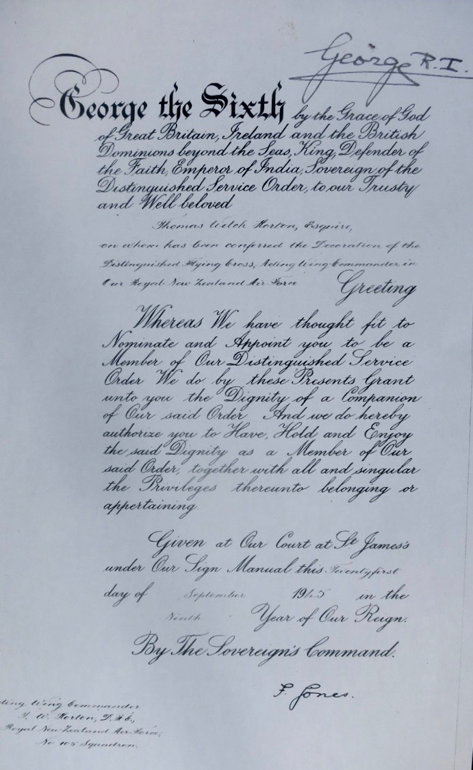 Photograph of Wing Commander Thomas Welch Horton's certificate for the Companion of the Distinguished Service Order. King George VI presented the certificate and medal to Horton during an investiture ceremony on 21 September 1945 at the Court at Saint James's in London, England.